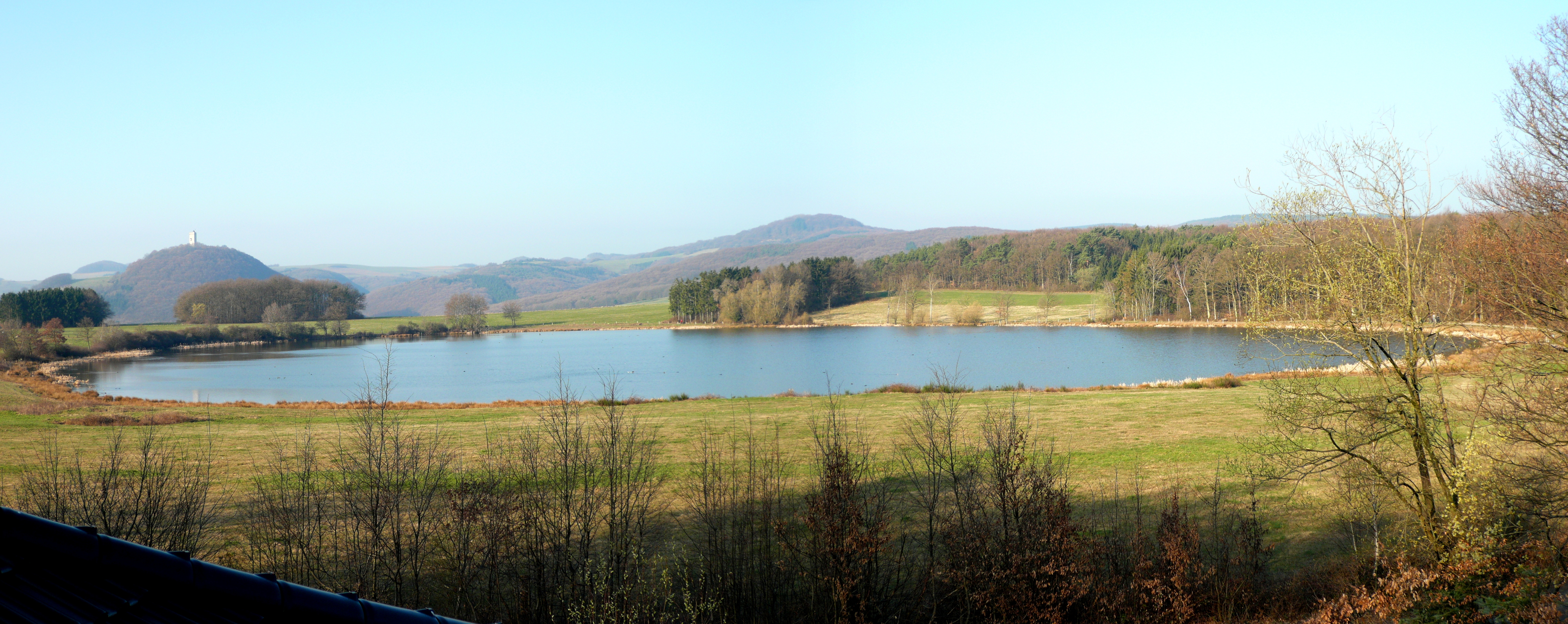 Rodder Maar, a lake of possibly vulcanic origin near Niederdürenbach, Eifel